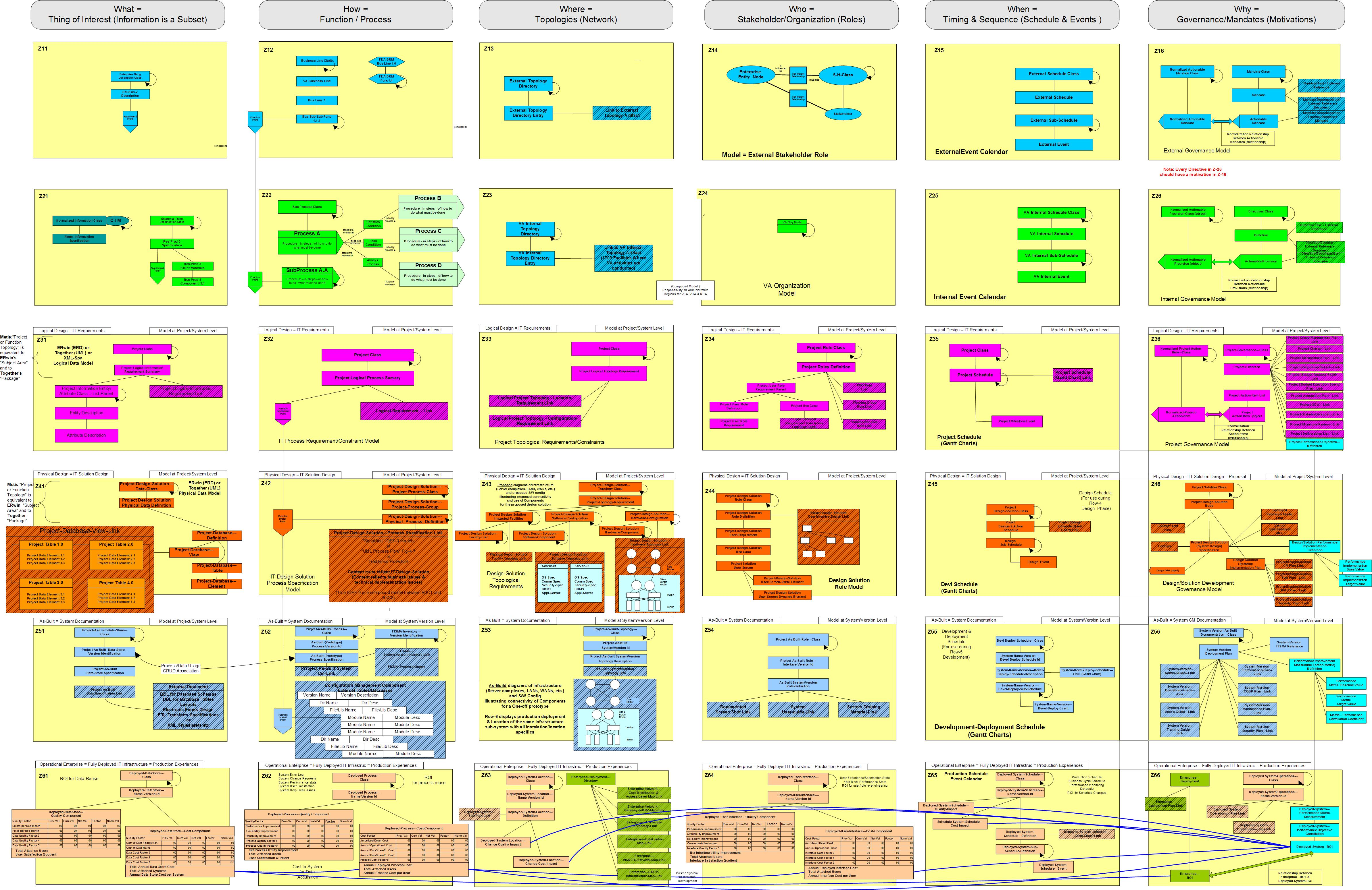 Meta-Model Cell Details. The EA Repository is organized at the macro level by the Zachman framework and at a cell level by the Meta-model outlined in the diagram.